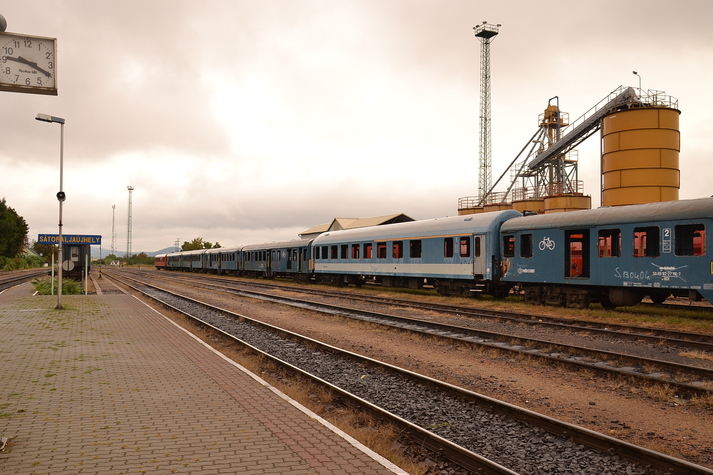 Sátoraljaújhely, Hungary - railway station